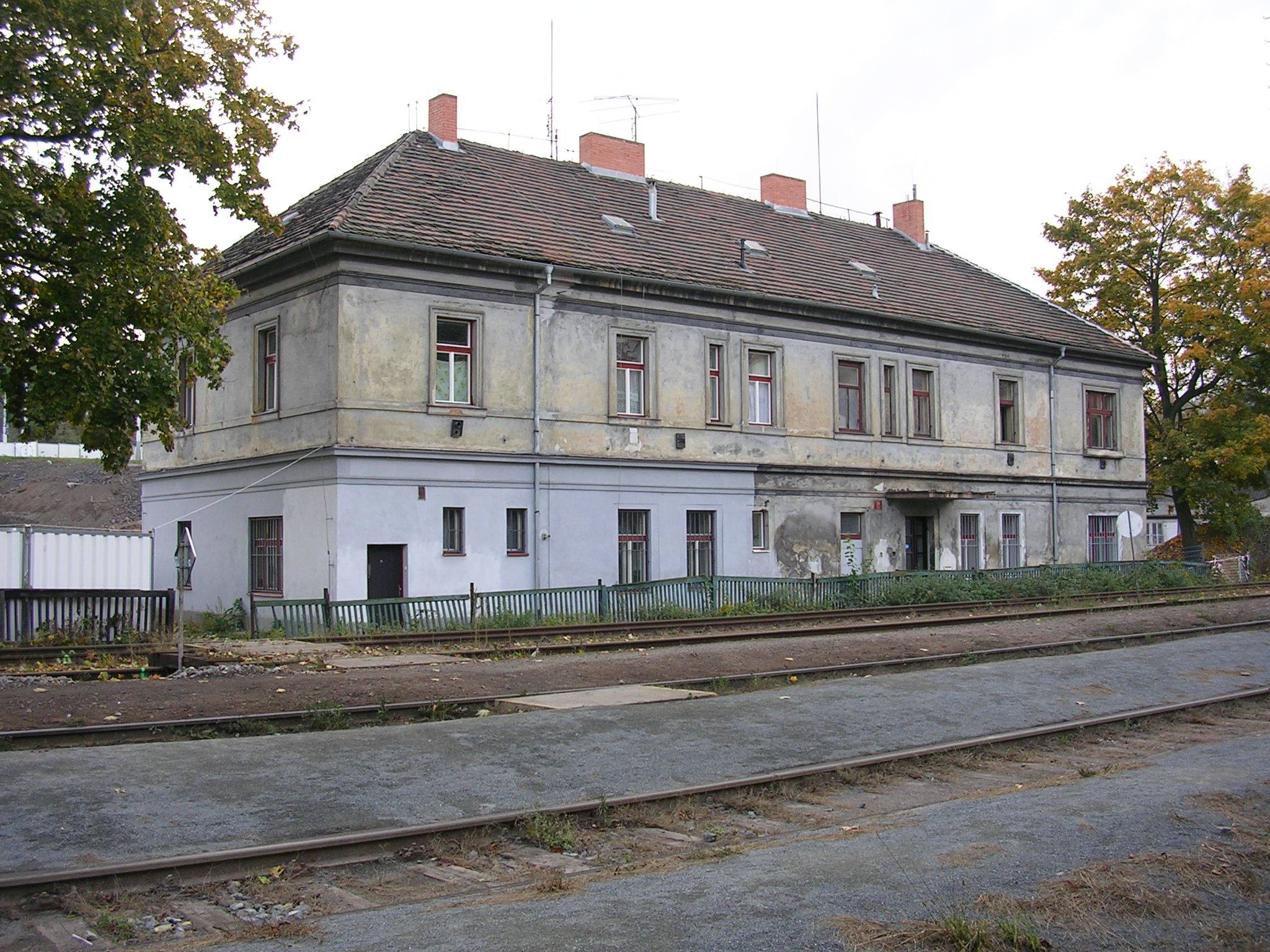 Dejvice, Prague, the Czech Republic. Train station.